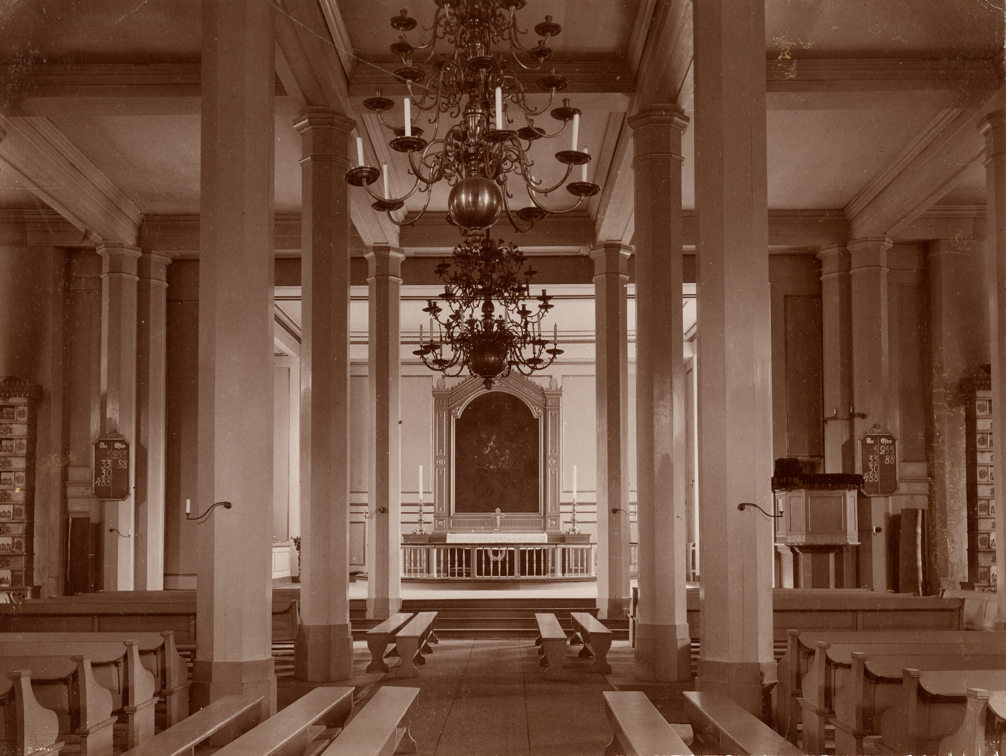 Interiør i Strømsø kirke, Drammen. Foto: Christian Christensen Thomhav, fra Riksantikvarens Kulturminnebilder.